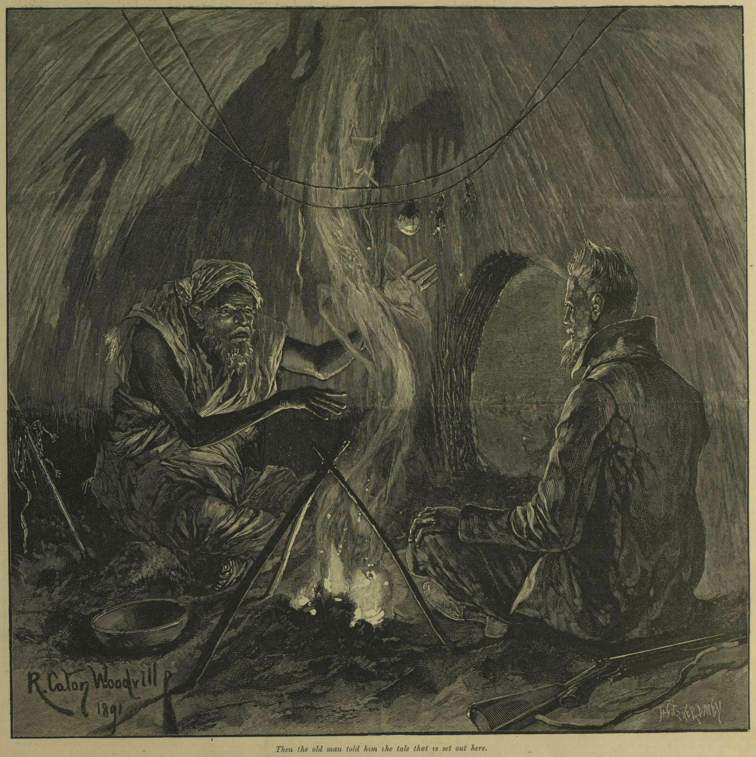 Illustration by R Caton Woodville of a H. Rider Haggard short story, "Nada the Lily", published in The Illustrated London News, 2 January 1892; pg. 9